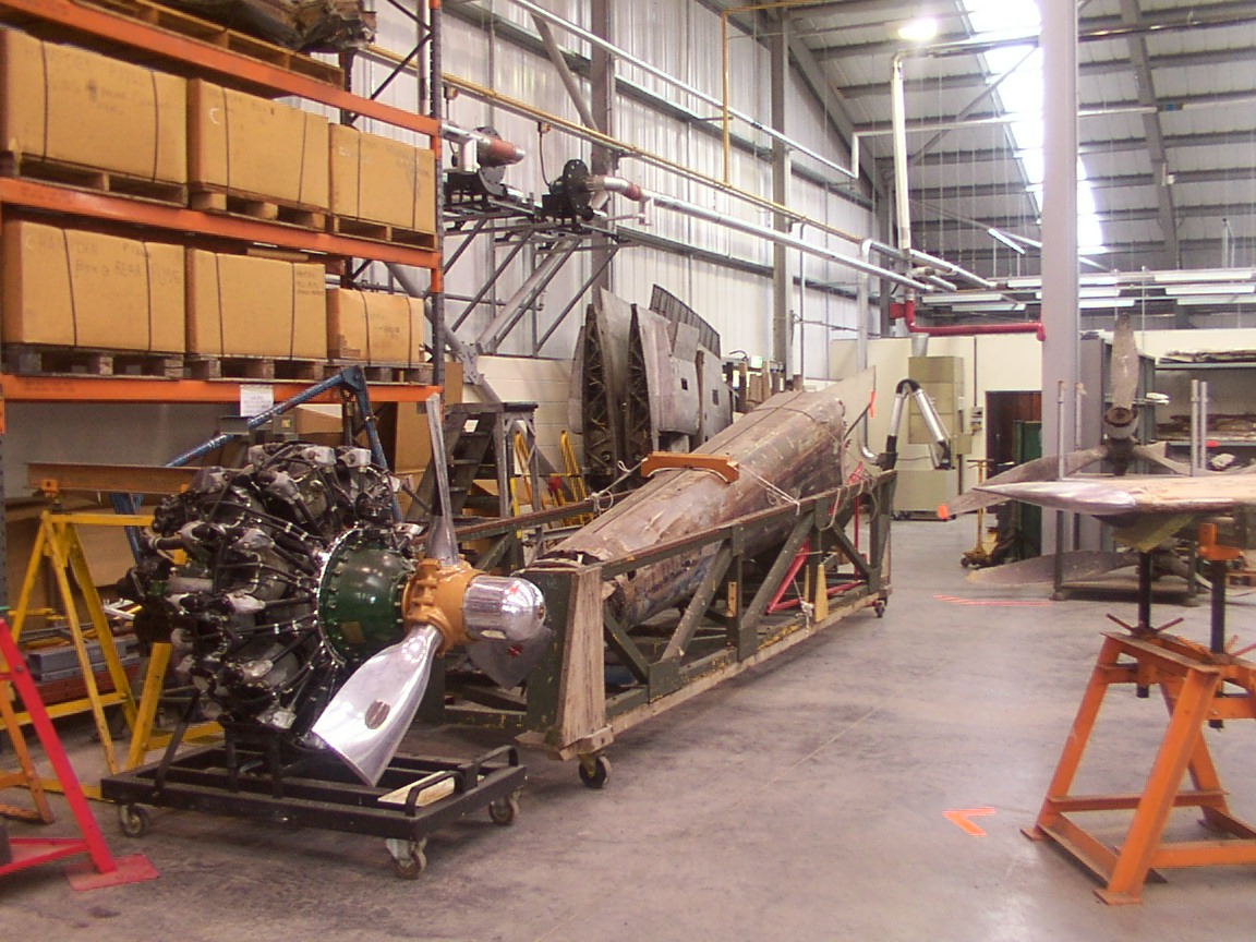 Michael Beetham Conservation Centre at the RAF Museum Cosford, England